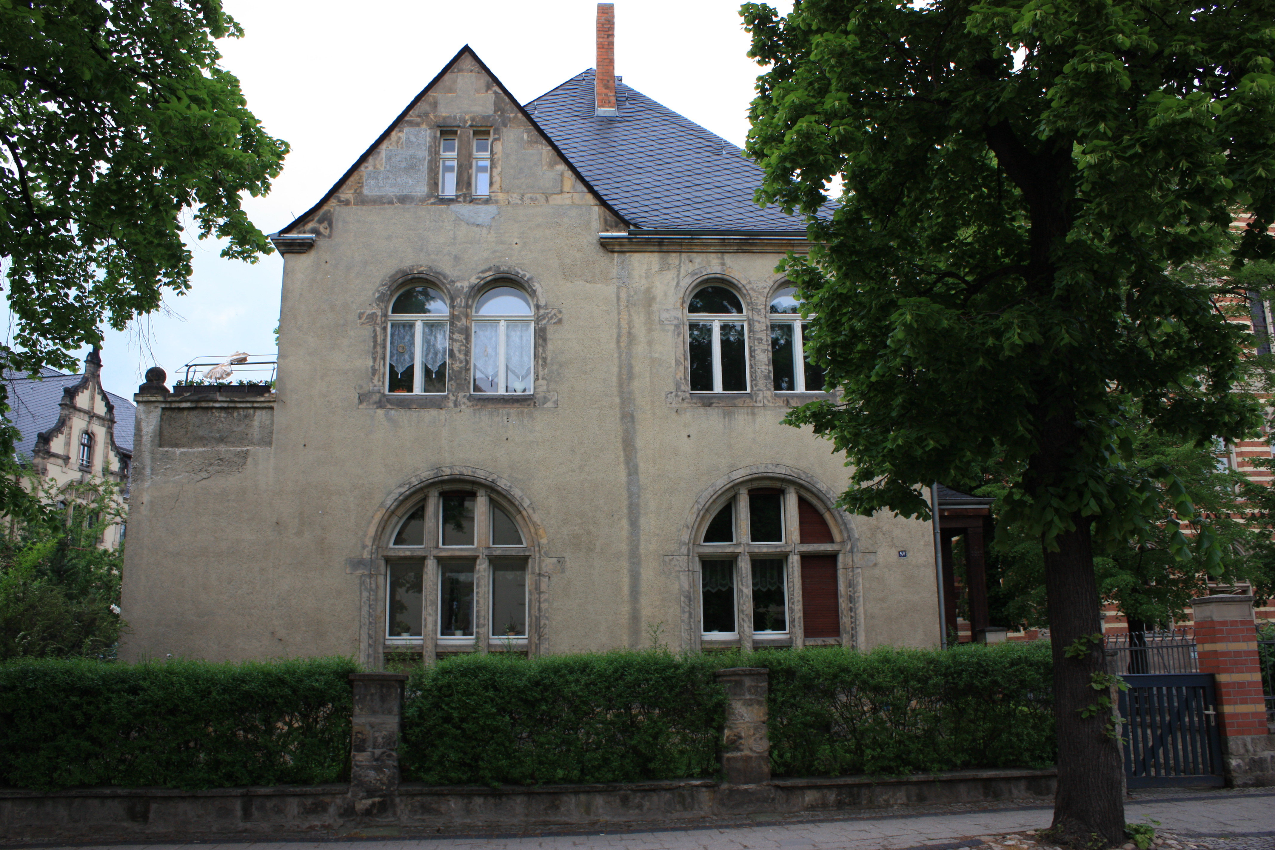 This is a photograph of an architectural monument.It is on the list of cultural monuments of Quedlinburg